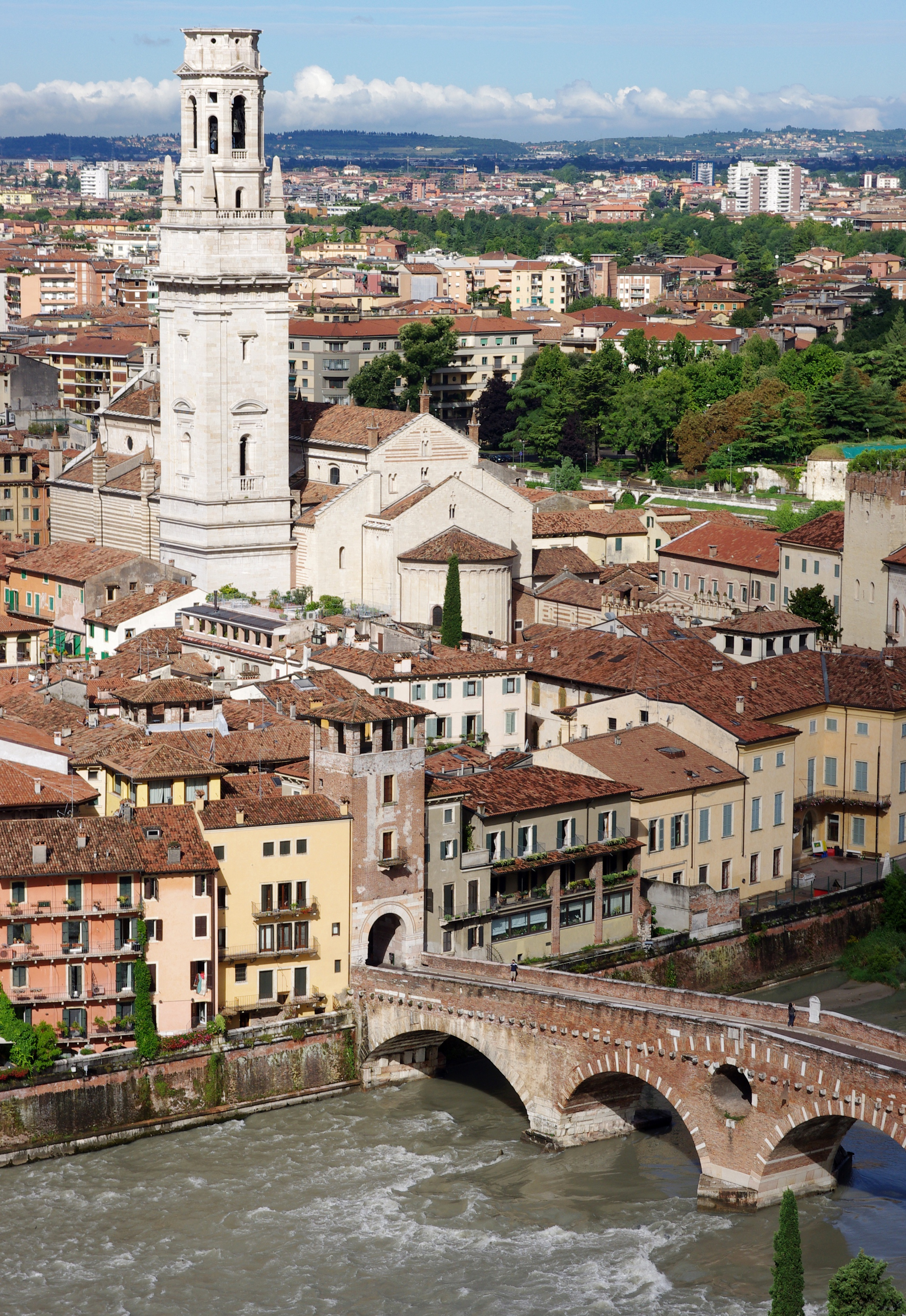 Verona, view from Castel San Pietro toward the cathedral and Ponte Pietra